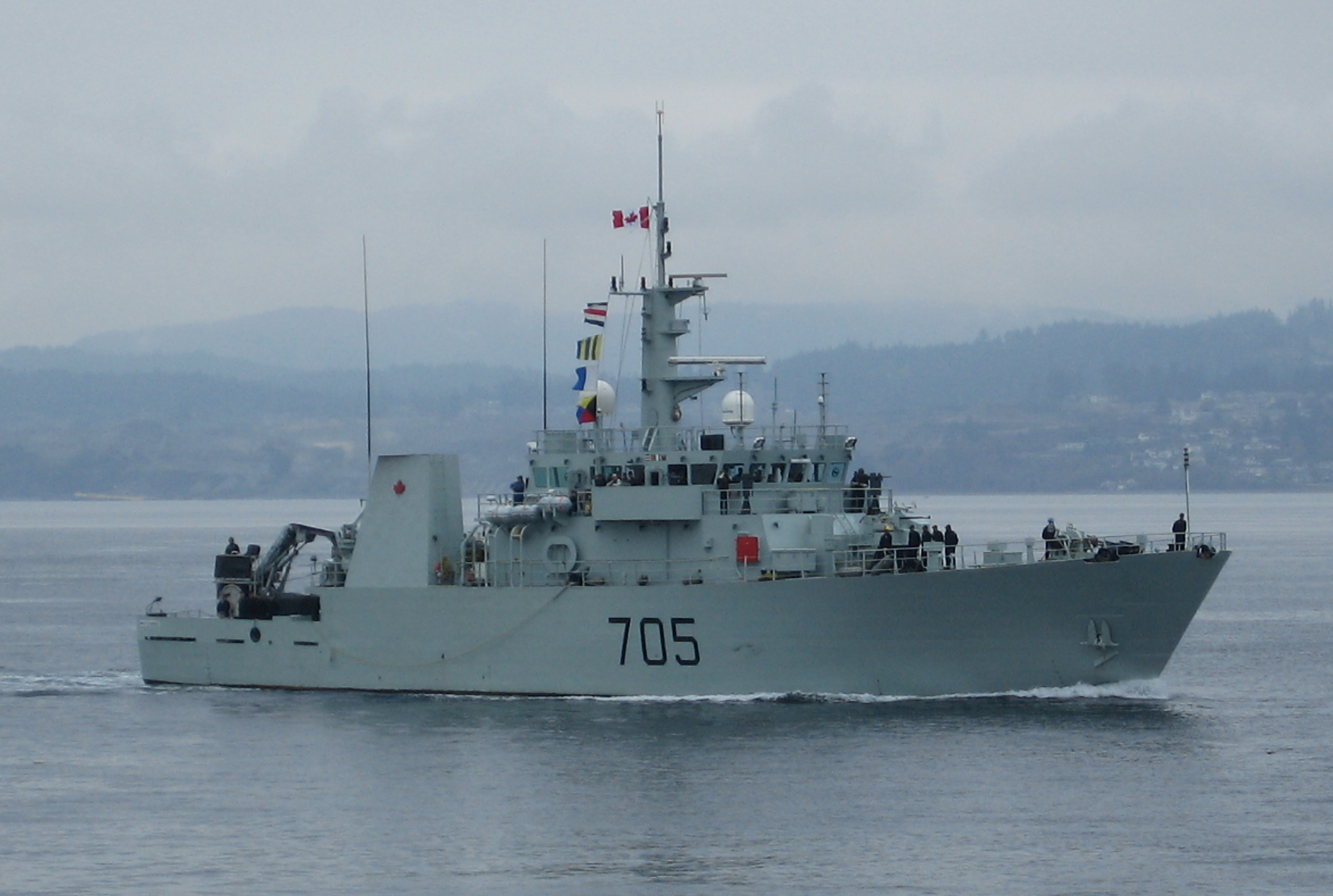 Description: HMCS Whitehorse, photo taken October 2006 File Author: Webber Source: "own work"